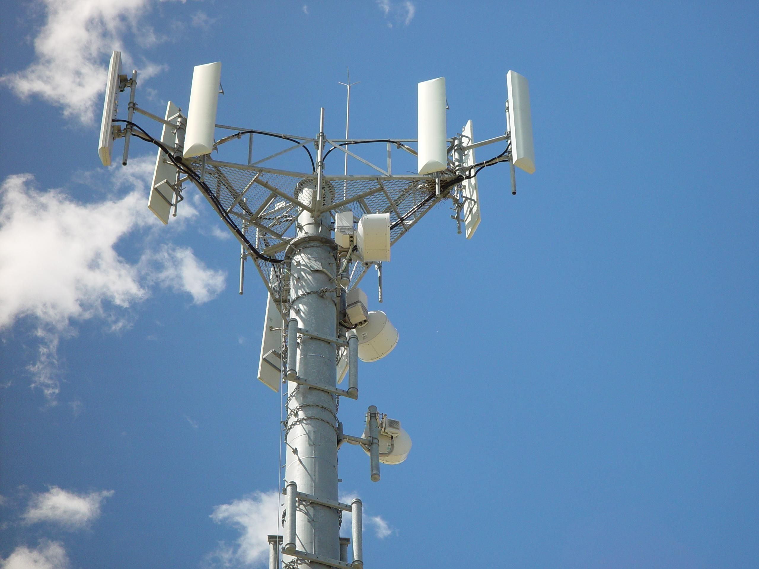 Image title: Mobile telephone antennas tower Image from Public domain images website